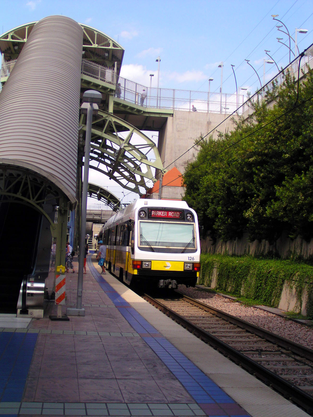 A northbound Red Line train at Mockingbird Station, a station on the Dallas Area Rapid Transit's Blue and Red Lines in north Dallas, Texas (USA).